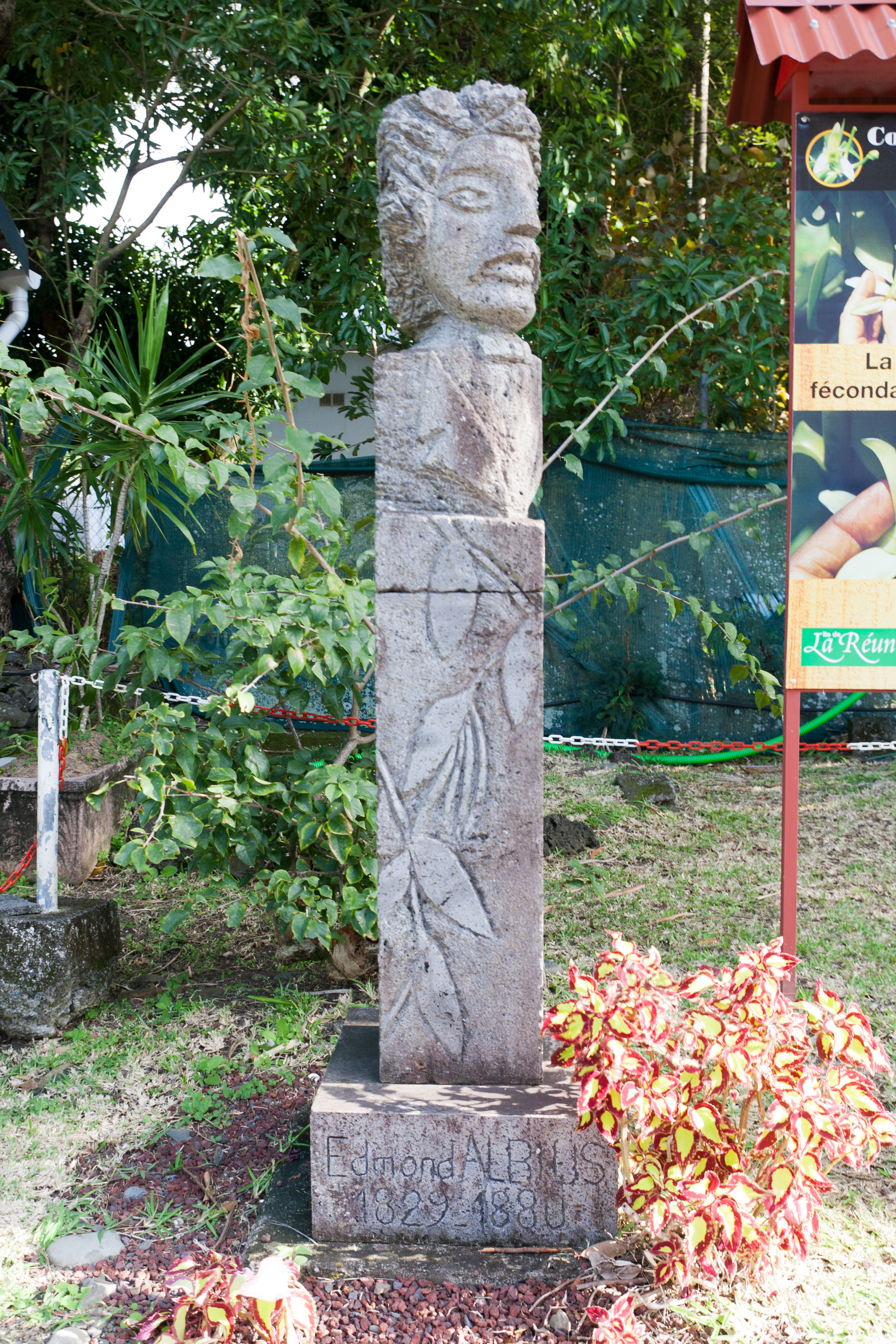 Statue of Edmond Albius on a Vanilla cooperative in Bras-Panon, Réunion Island. At the age of 12, he invented a technique for pollinating vanilla orchids quickly and profitably.